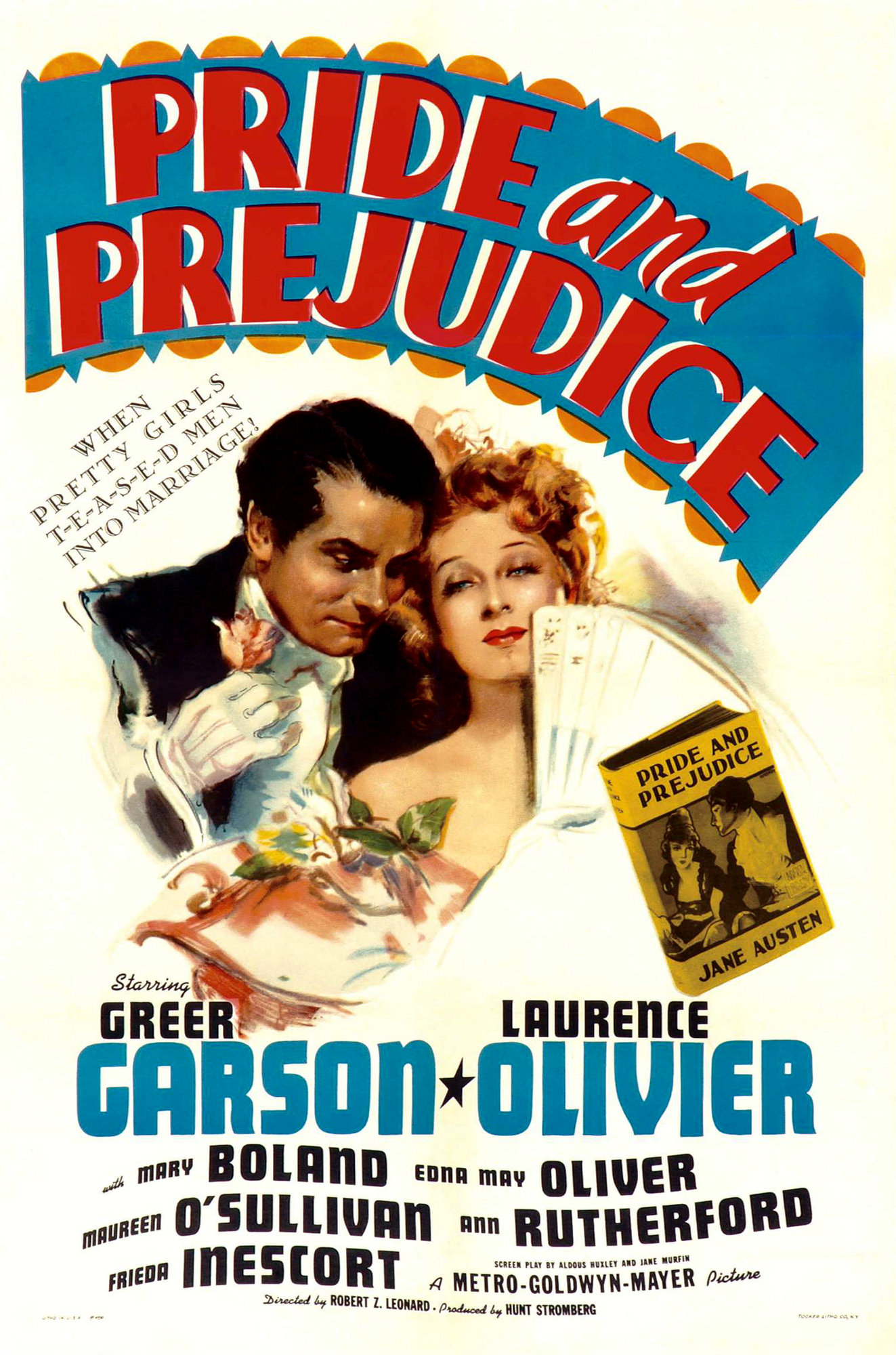 Poster for the 1940 film Pride and Prejudice.. The item has no copyright markings on it as can be seen in the links above. At bottom left is Litho in USA and (looks like)#440. At bottom right is Tooker Litho Co. NY-they printed the poster.